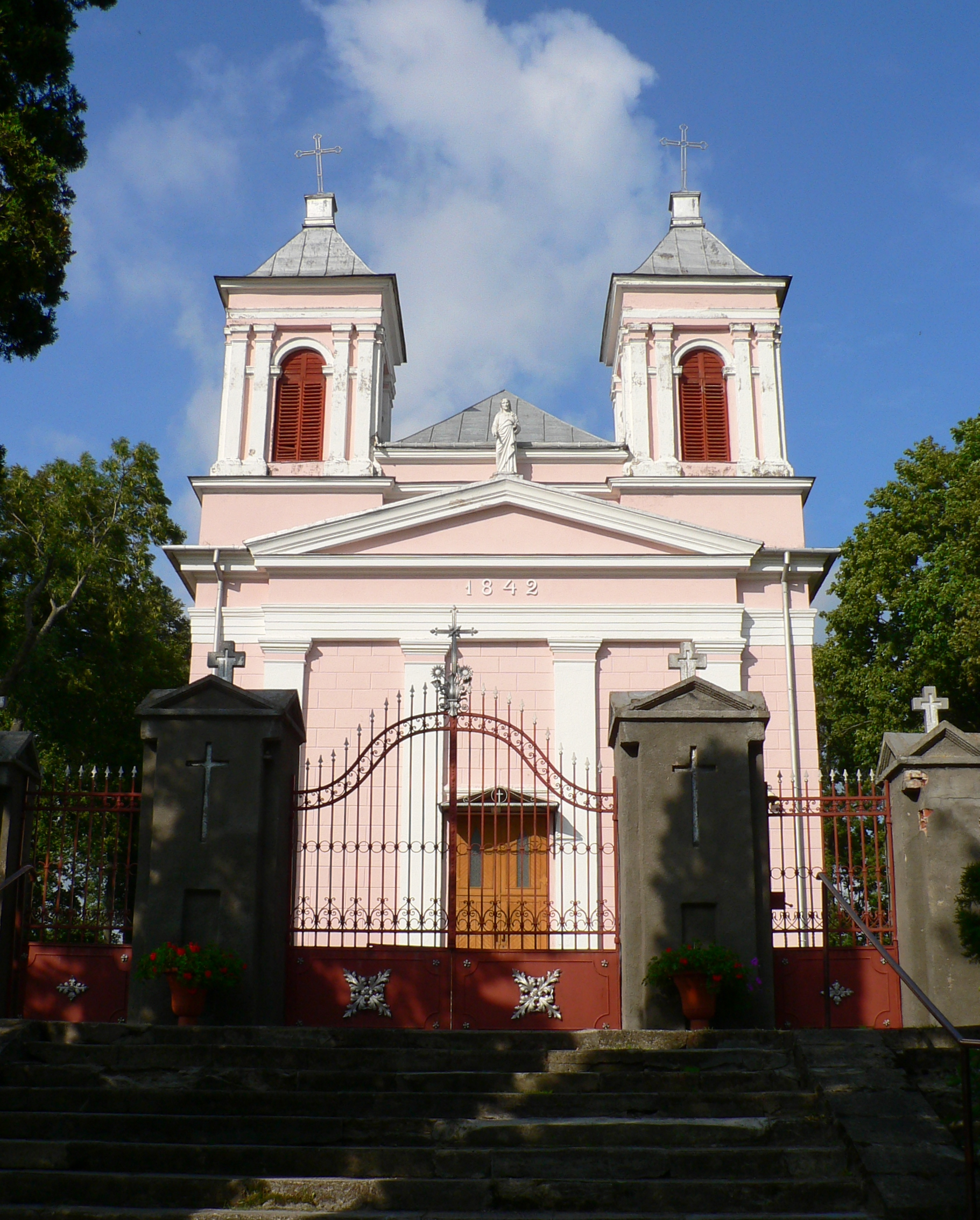 St. Matthew the Evangelist church (1842) in Krosna, Lithuania